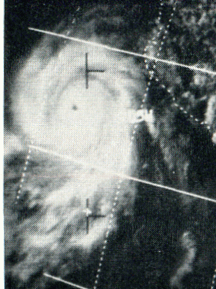 This ESSA 9 weather satellite picture of Hurricane Olivia was taken on September 25, 1971 at 2053 UTC